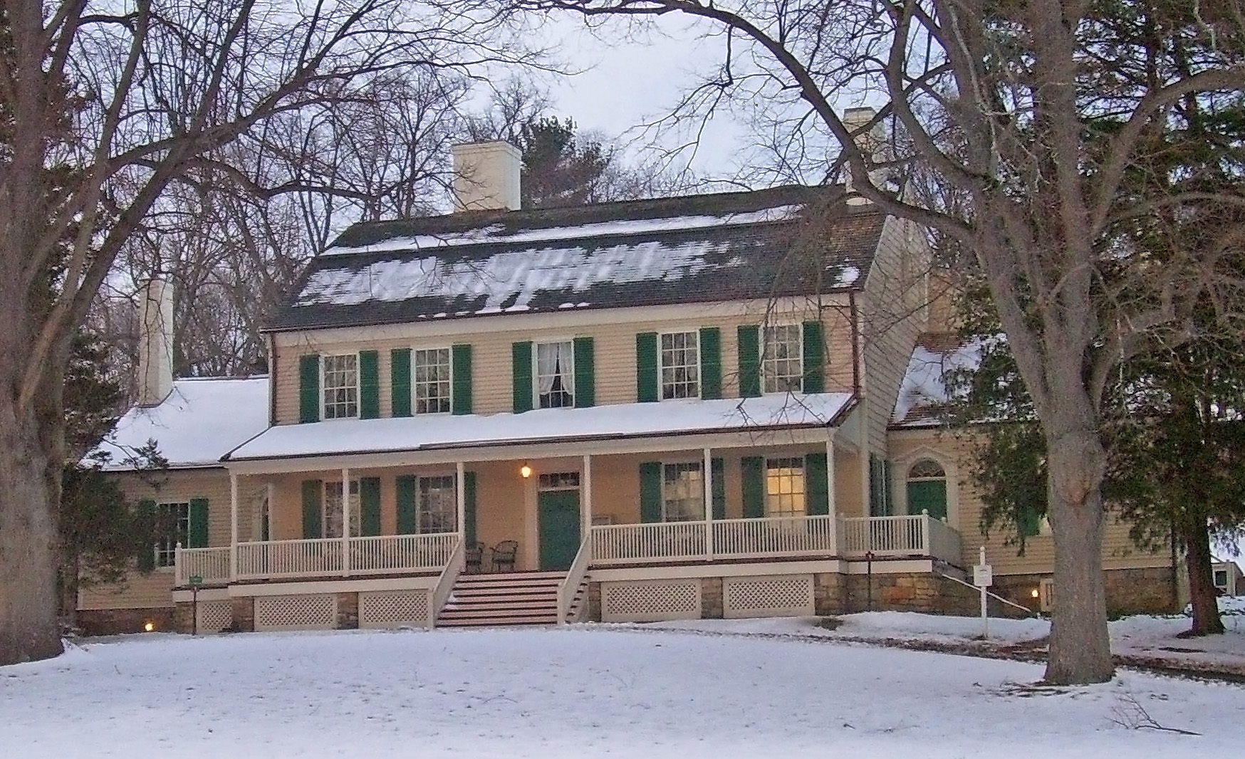 Home of John Jay, first Chief Justice of the United States, along NY 22 near Katonah, NY, USA